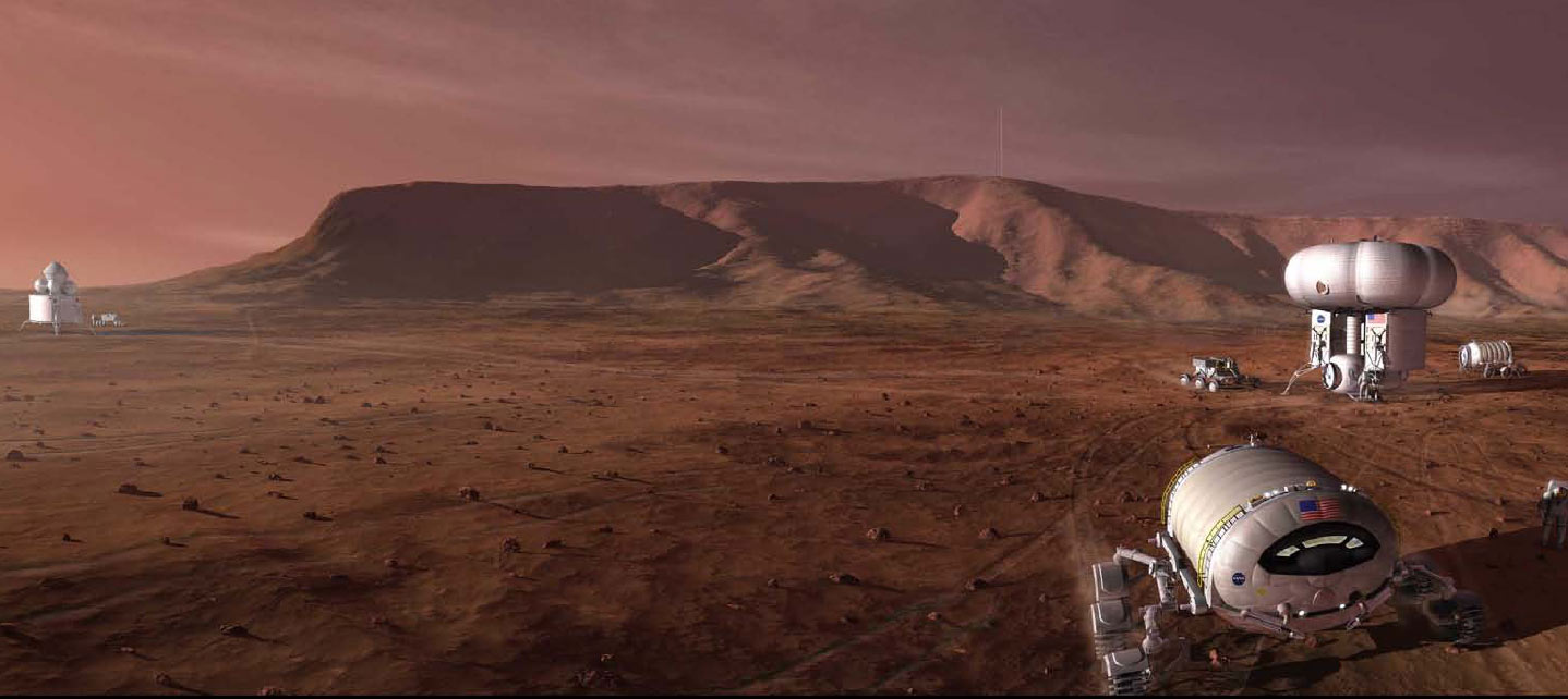 Mars-manned-mission vehicle (NASA Human Exploration of Mars Design Reference Architecture 5.0) feb 2009